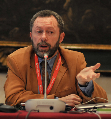 José Luis Dader